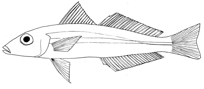 Hand drawn diagram of Sillago macrolepis, the Large-scale whiting based on McKay (1992)